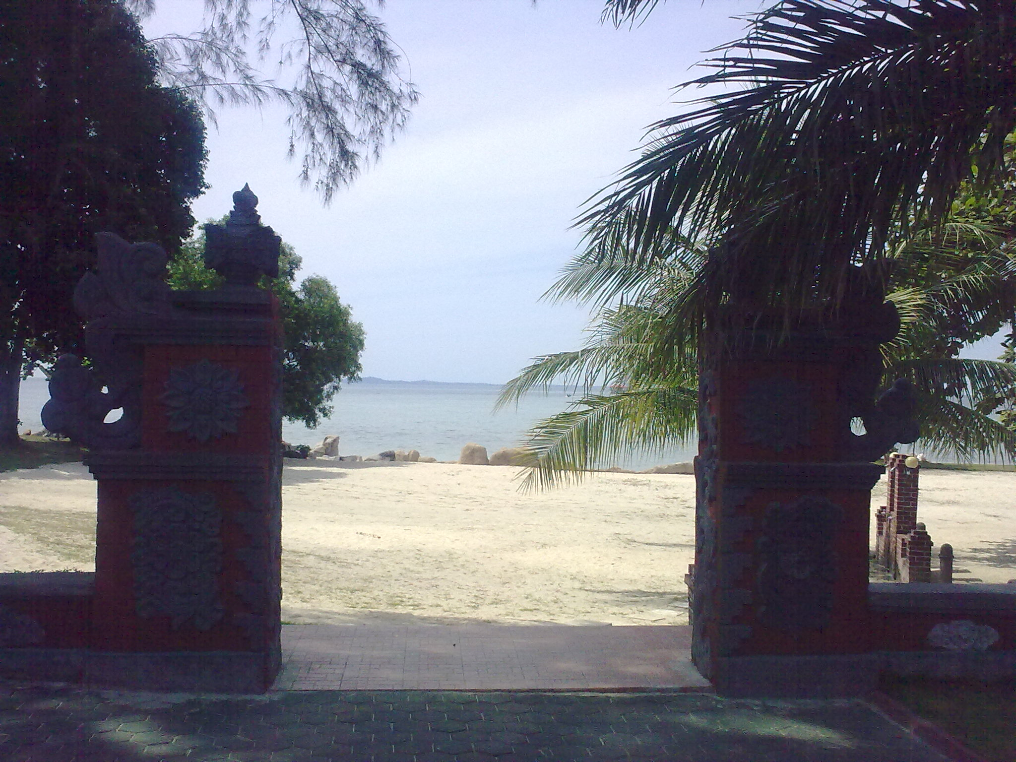 Bintan Agro Beach Resort, Indonesia